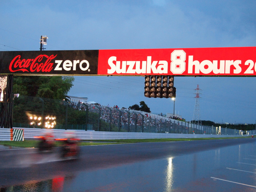 Suzuka 8 Hours 2009.